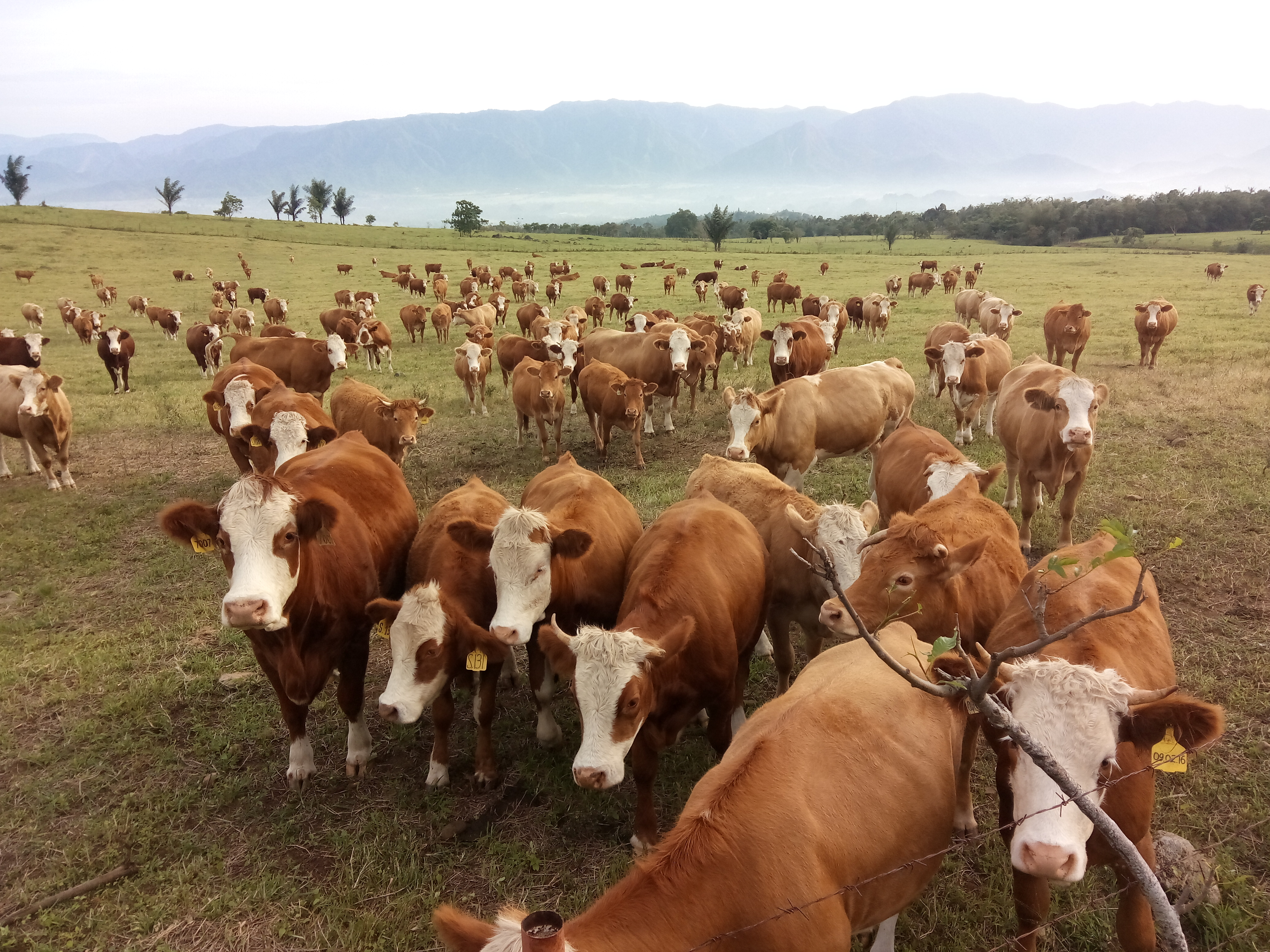 these cows are waiting for food at Padang Mangatas ranch